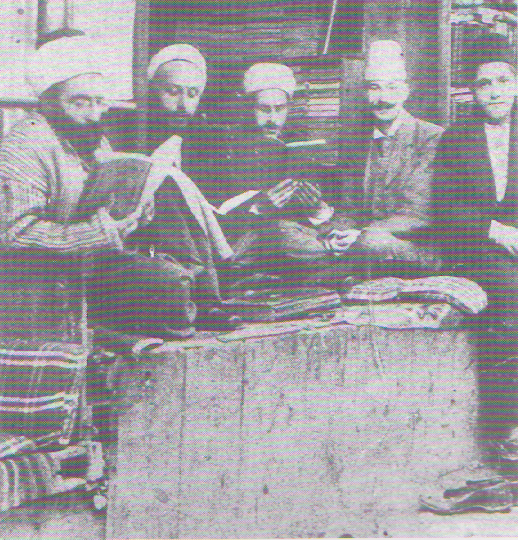 Gerlof van Vloten in Constantinopel in 1896. He is second on the left in the image.